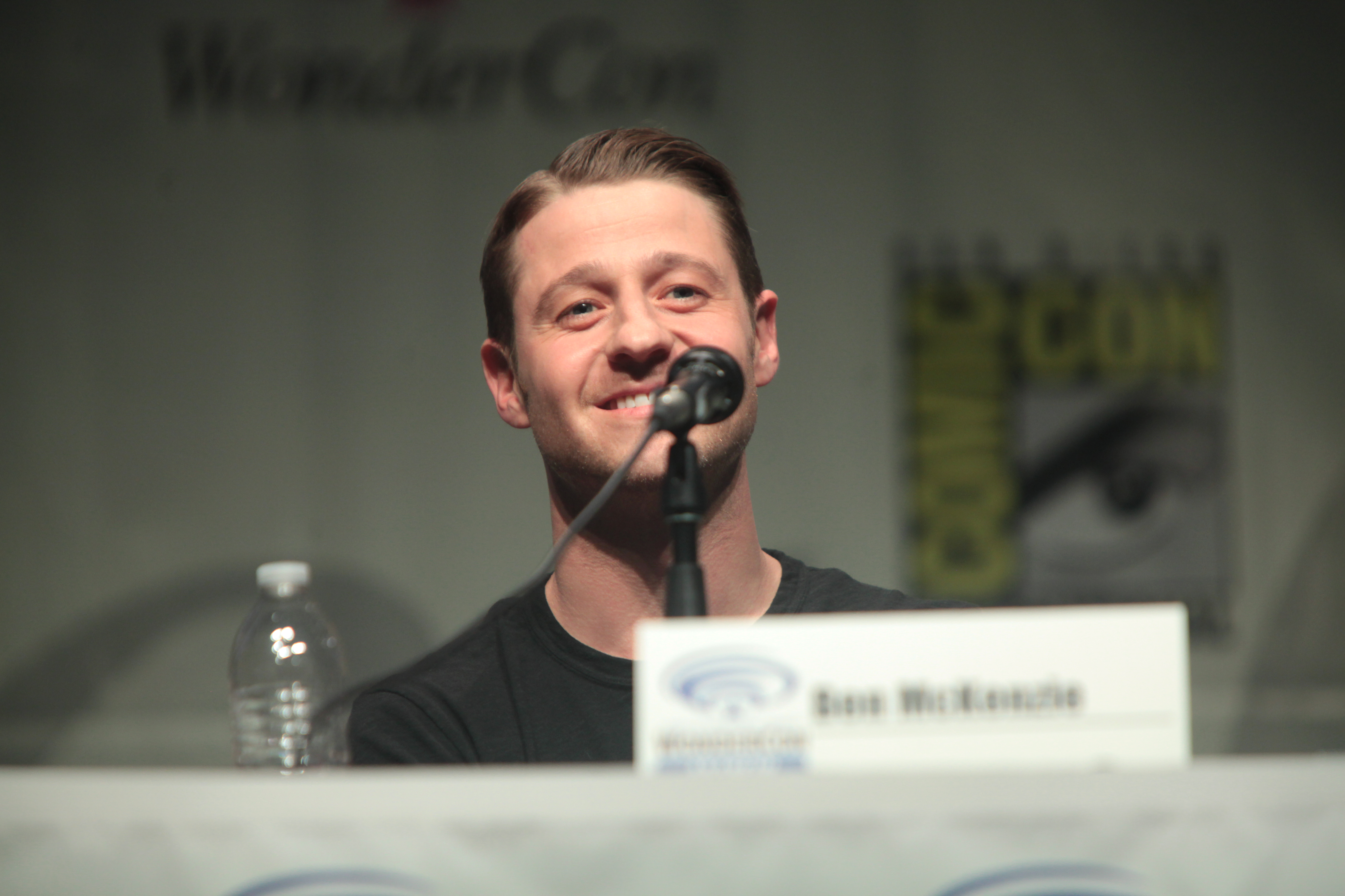 Ben McKenzie speaking at the 2015 Wondercon, for "Gotham", at the Anaheim Convention Center in Anaheim, California.